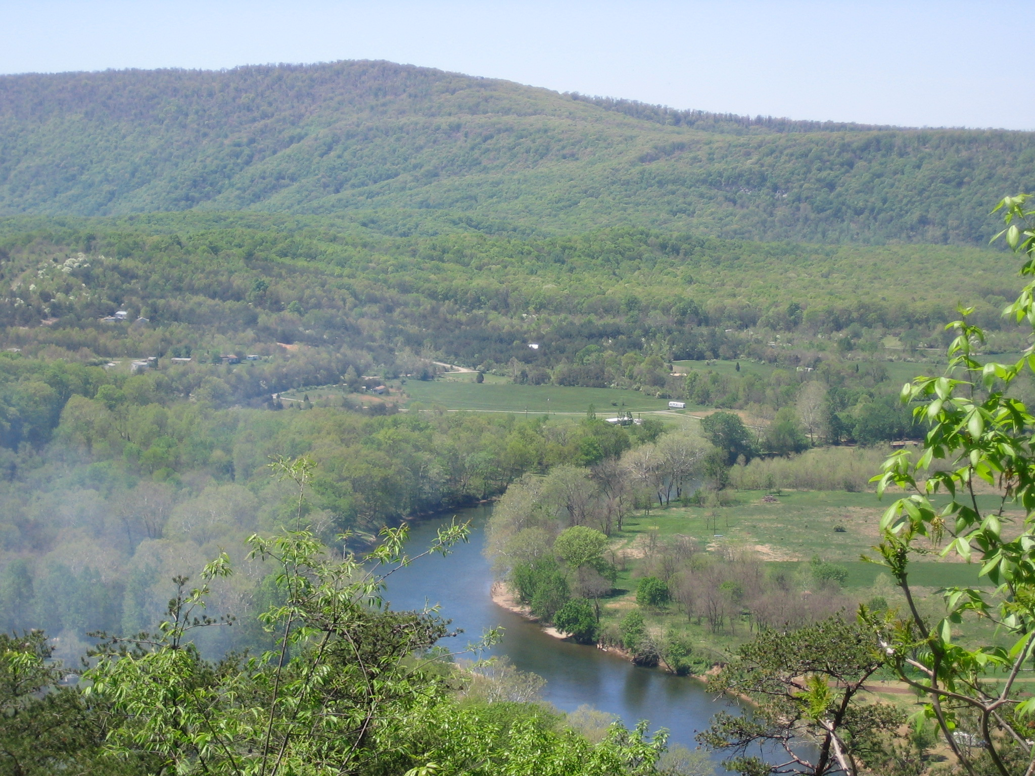 The South Branch Potomac River from Frenches Station Road (County Route 5/7) near South Branch Depot, West Virginia, United States.